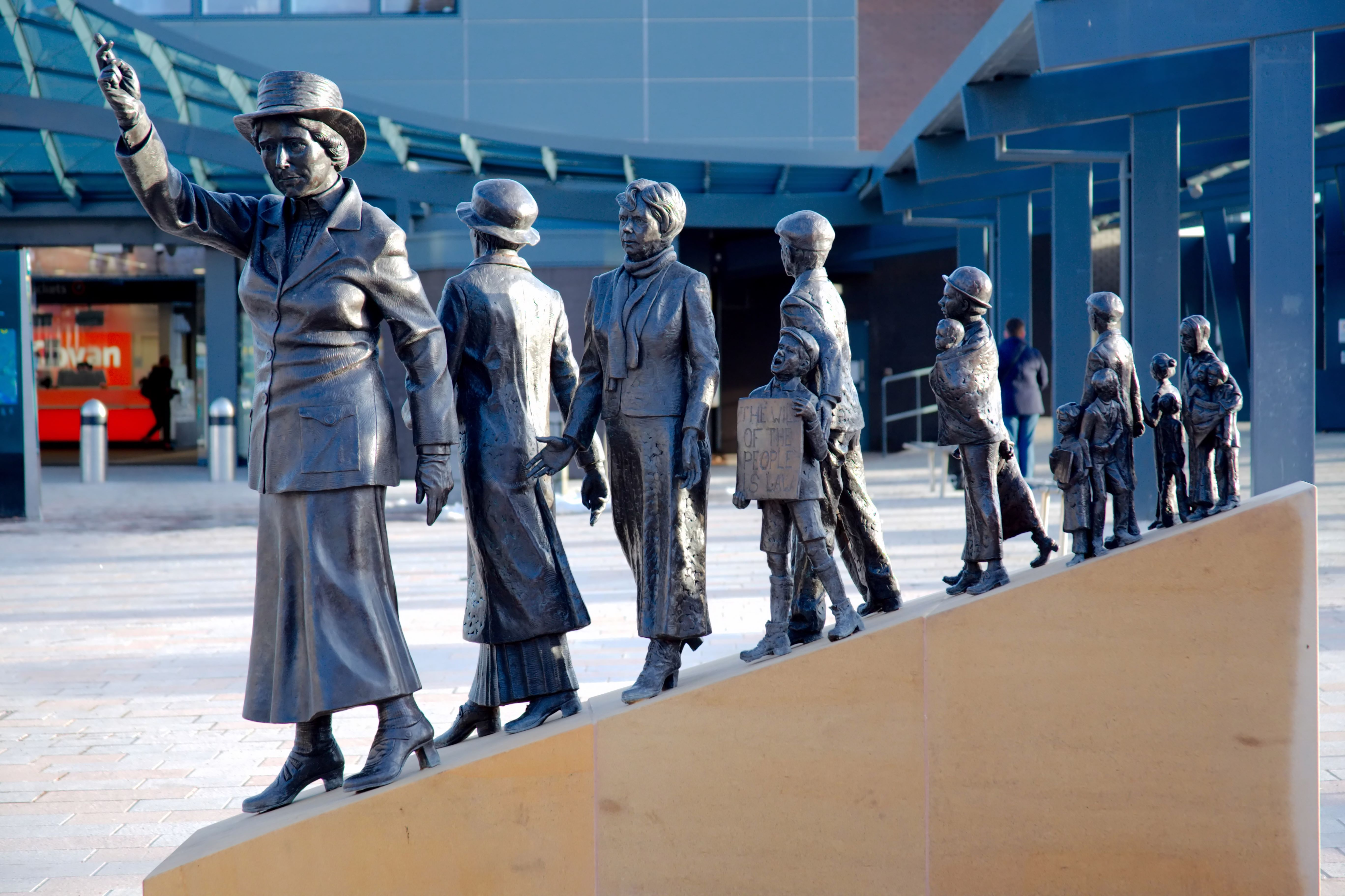 Statue to commemorate Mary Barbour, Govan Cross, Glasgow. Sculptor: Andrew Brown View from the side.